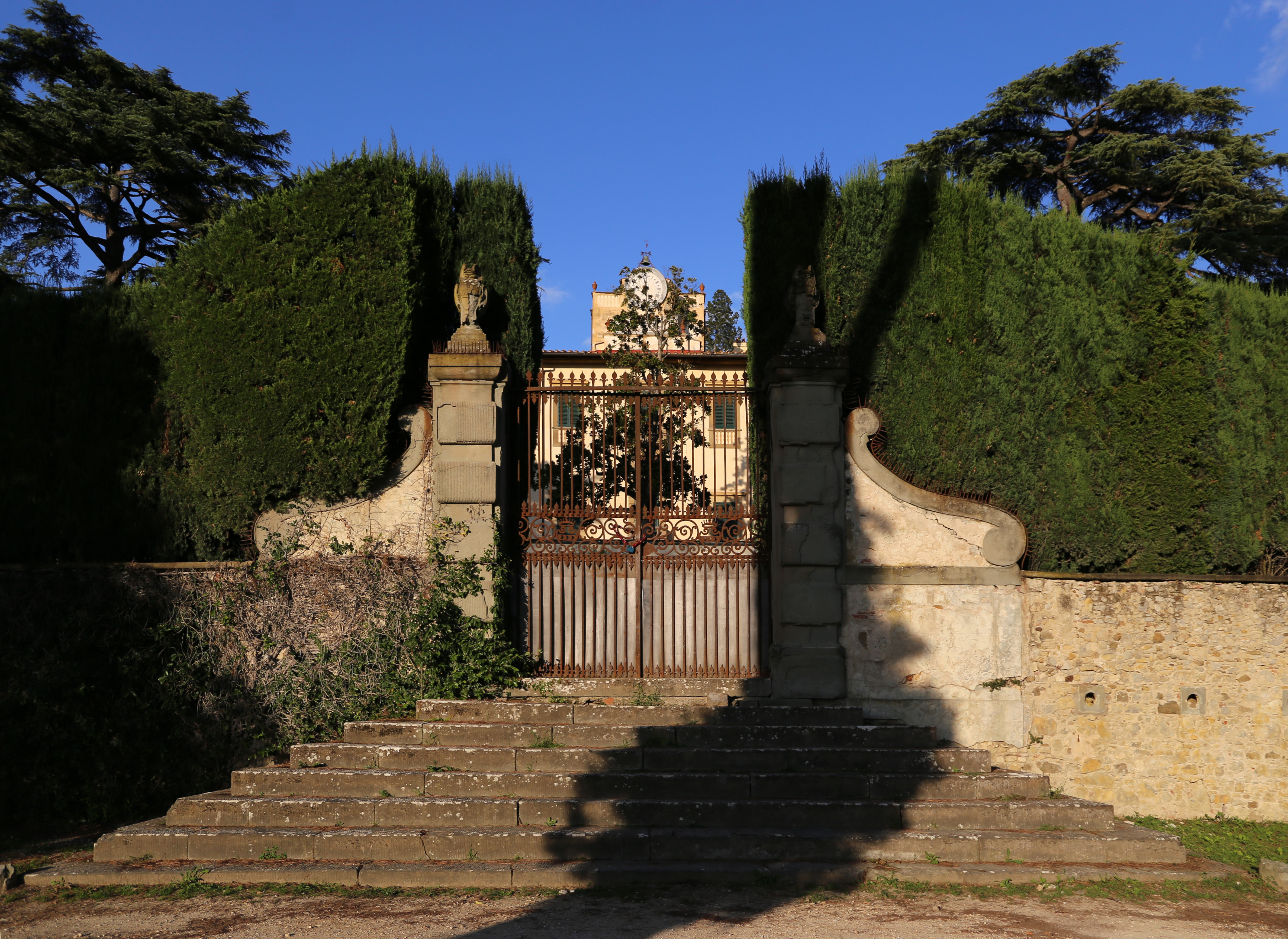 Villa Il Querceto